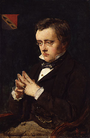 Portrait of Wilkie Collins Paiting in the National Portrait Gallery, London.